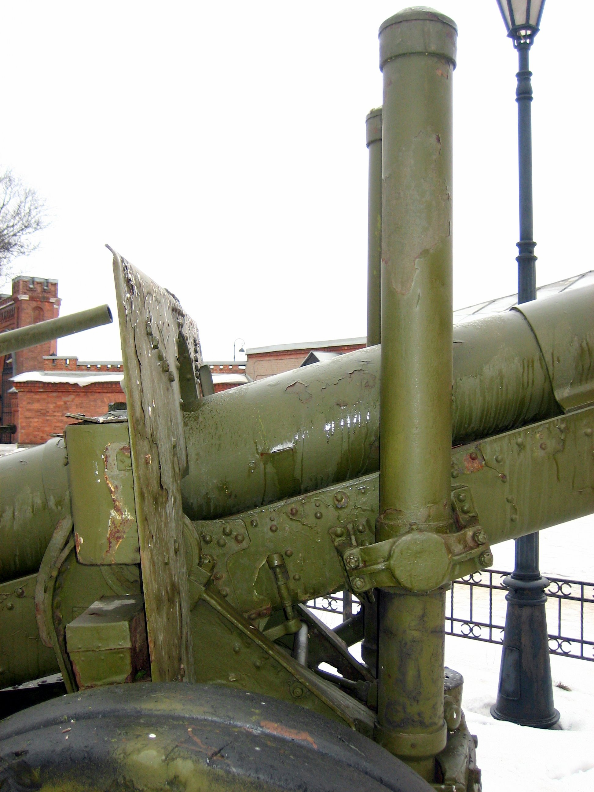 Soviet 122 mm А-19 Mark 1931 gun, displayed in Saint Petersburg Artillery Museum. Photo taken on 3 Marсh, 2007. Source: Photo by me, User:Saiga20K.